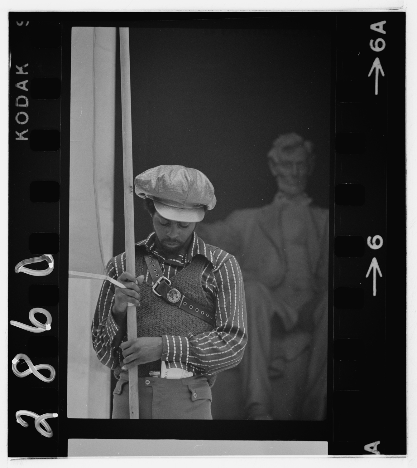 "Black Panther Convention, Lincoln Memorial"